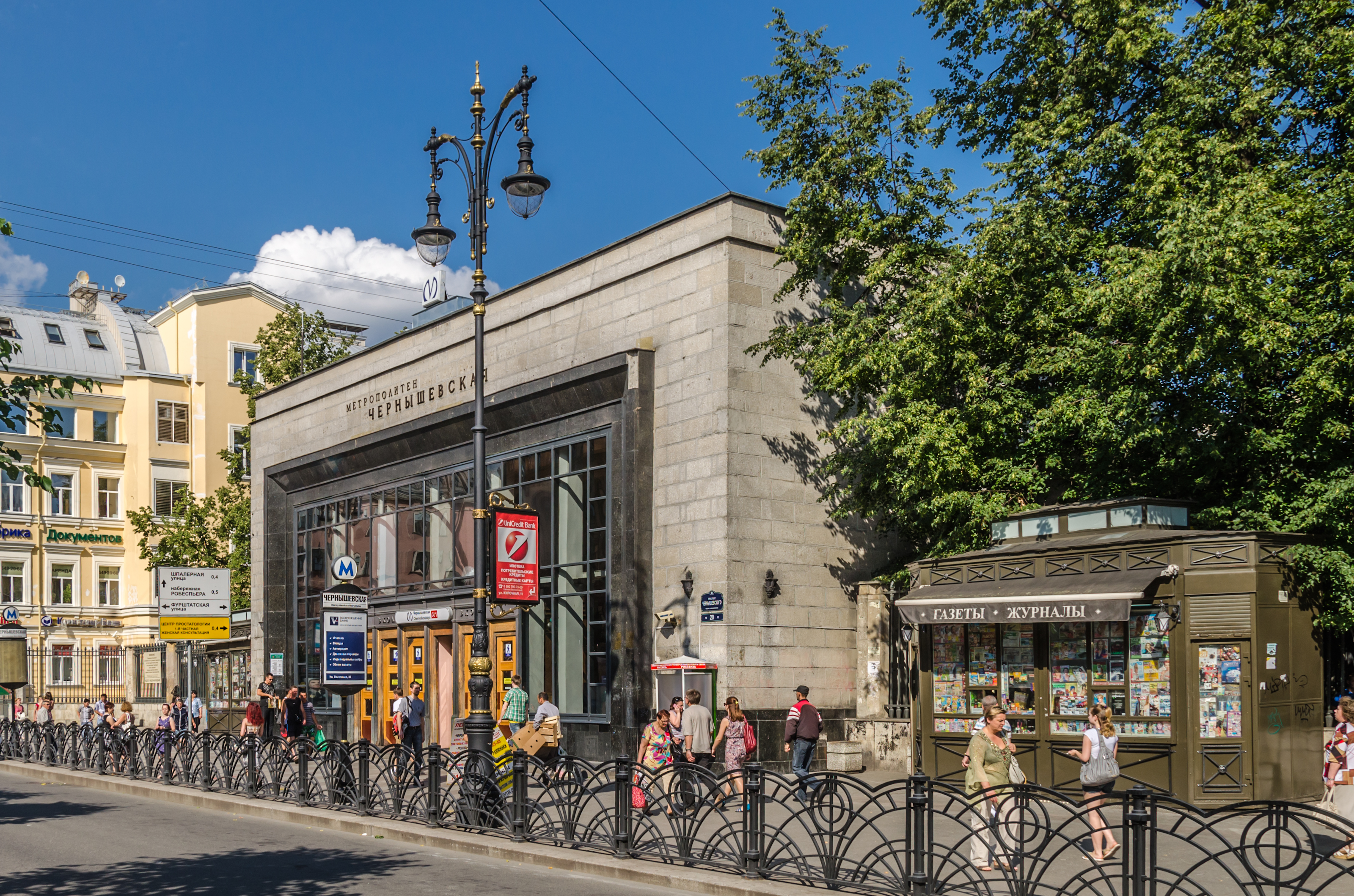 Chernyshevskaya station of Saint Petersburg Subway, pavilion